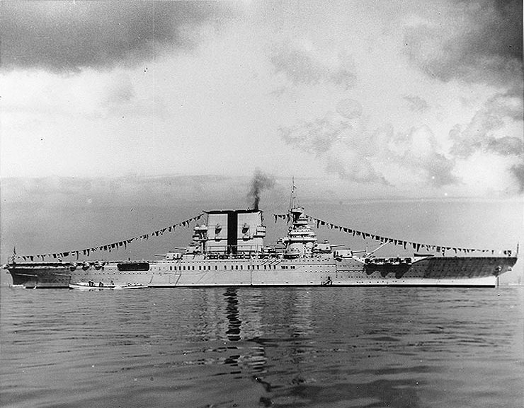 USS Saratoga (CV-3) dressed with flags on Navy Day, 27 October 1932.